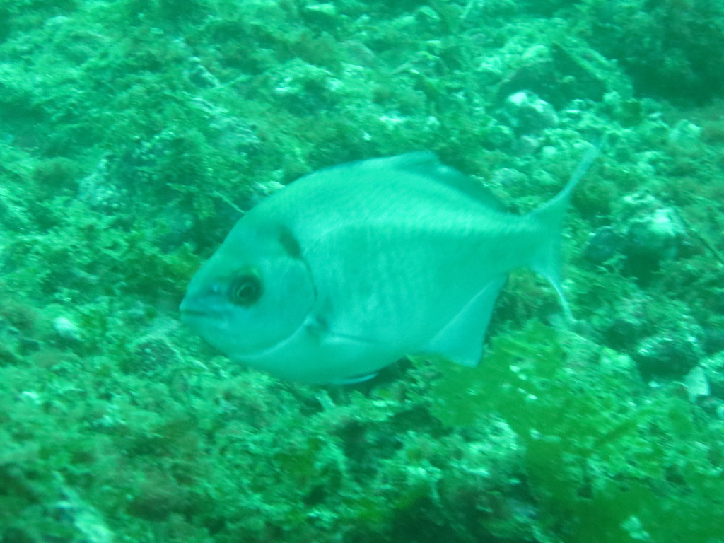 Halfmoon Medialuna californiensis